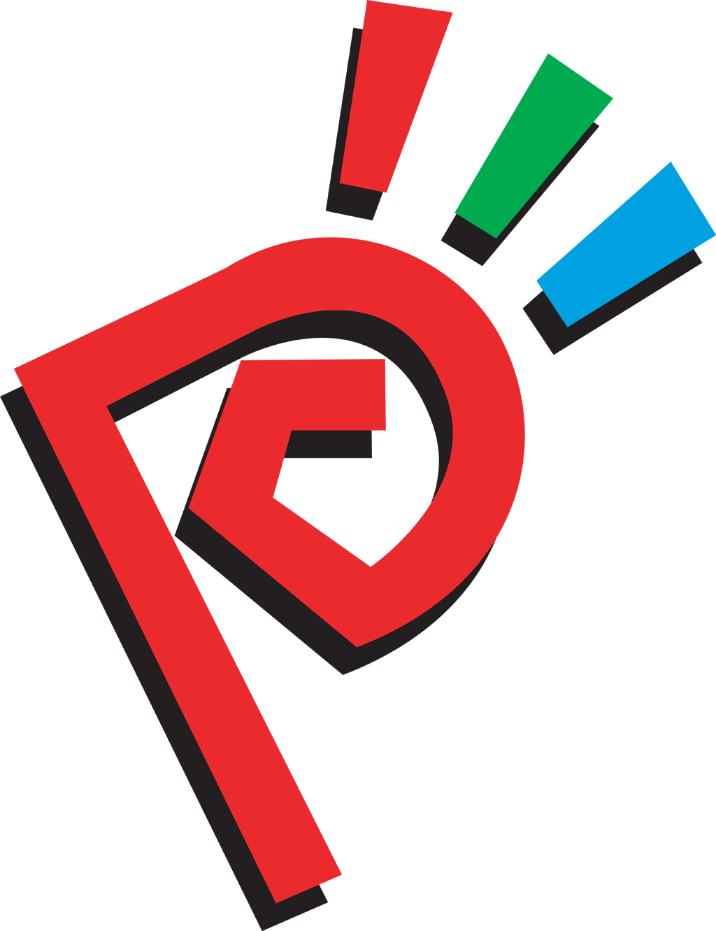 Neo Geo Pocket's logo